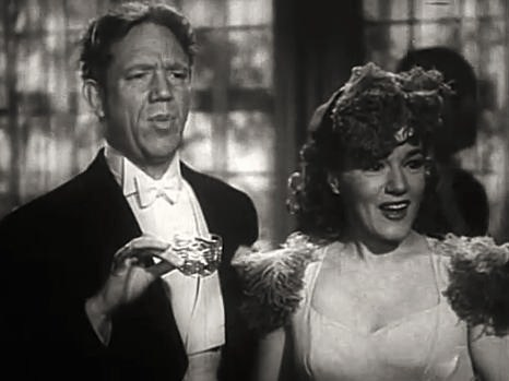 Paul et Grace Hartman (aka The Hartmans) in Sunny - cropped screenshot